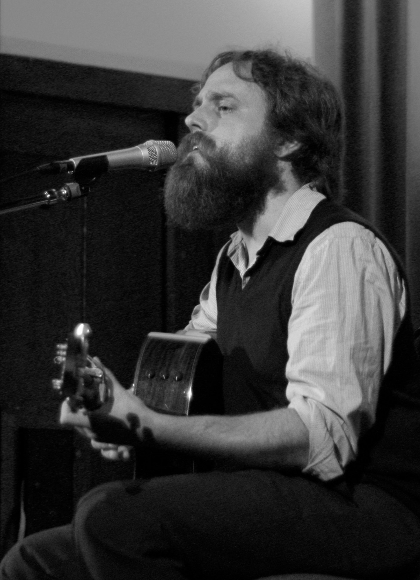 Iron & Wine performing at the Swedish American Hall in San Francisco, California